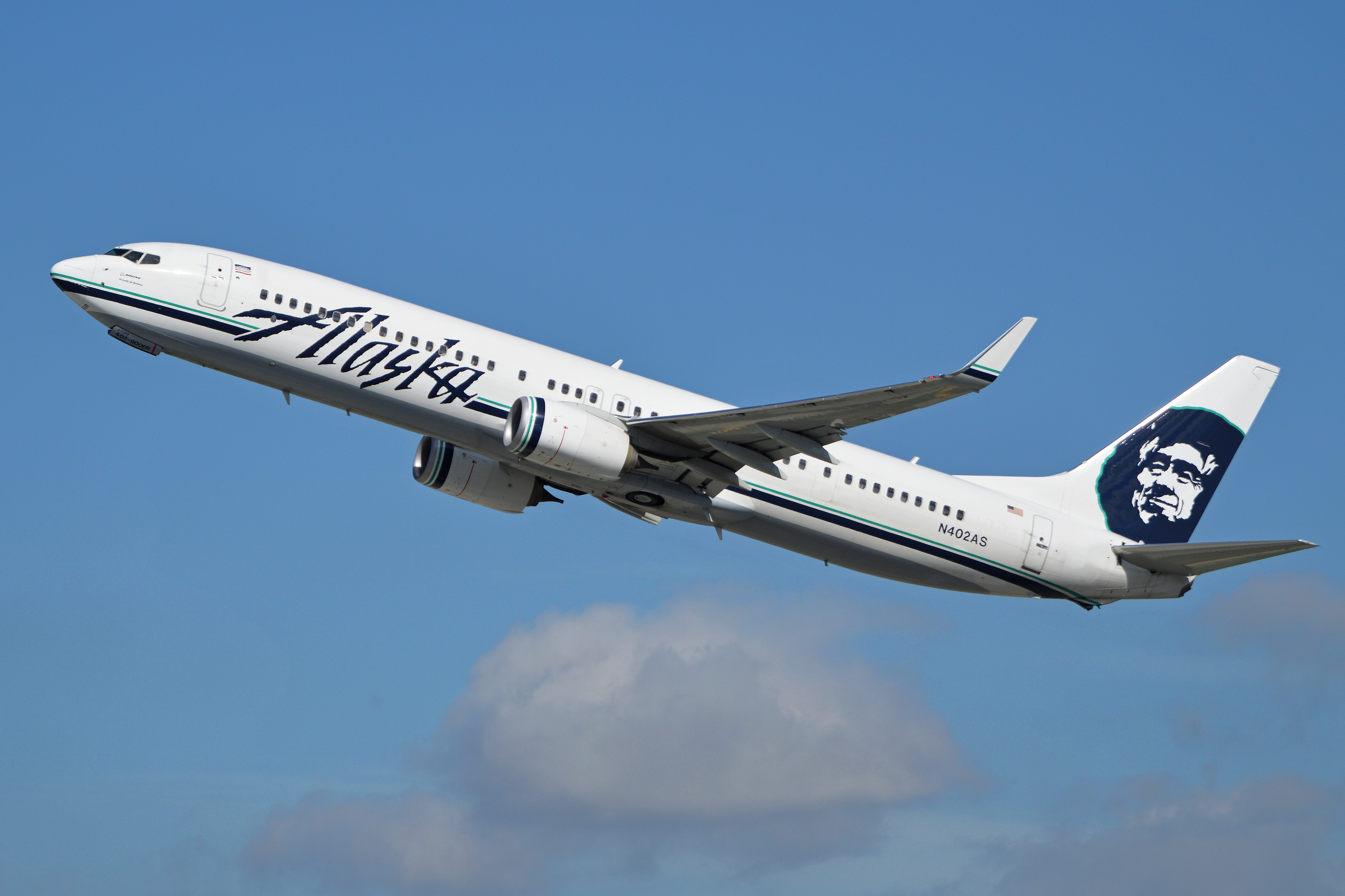 c/n 41189, l/n 4212. Built 2012. Seen departing LAX and taken from the Imperial Hill spotting location. Los Angeles, California, USA. 08-2-2014